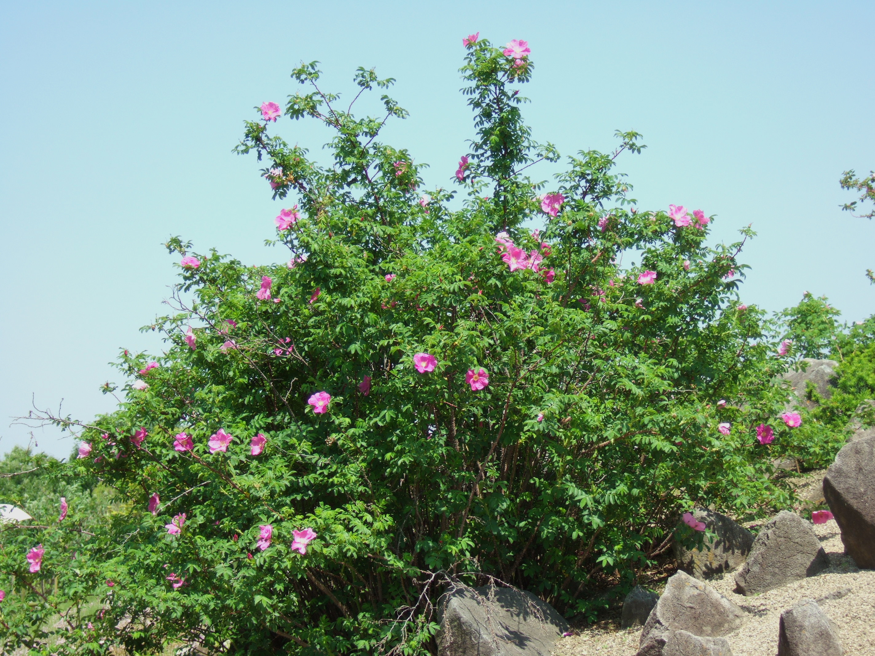 Rosa davurica, Hamadera Park, Sakai, Osaka Prefecture, Japan